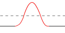 Wah-wah effect illustration for article